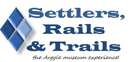 Logo from Settlers, Rails & Trails Inc. (Argyle, Manitoba, Canada) famous Canadian Flag Collection.